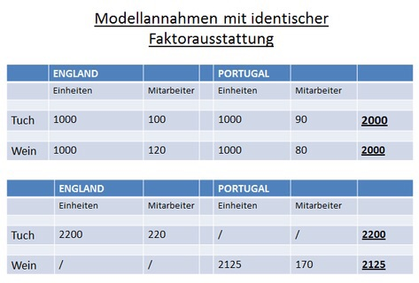 This image shows the model assumptions of identical factor endowments using the example of Portugal and England.